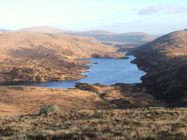 Loch Valley in the Galloway Hills/Forest Park Loch Valley photographed from a Cairn at 493 metres on the Rig of Loch Enoch near the top of the Buchan Hill. Loch Narroch is visible at the far end.